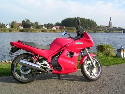 brommen yami, happily standing by the coast of the 'black water', a river streaming through the north-mid-eastern part of the netherlands, close to the booming city district of carpet-weaver's metropolis genemuiden